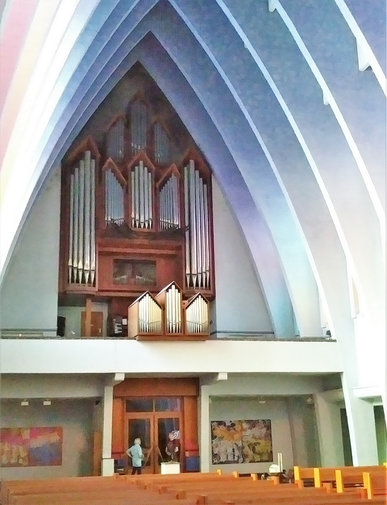 Kirche am Hohenzollernplatz (Berlin)